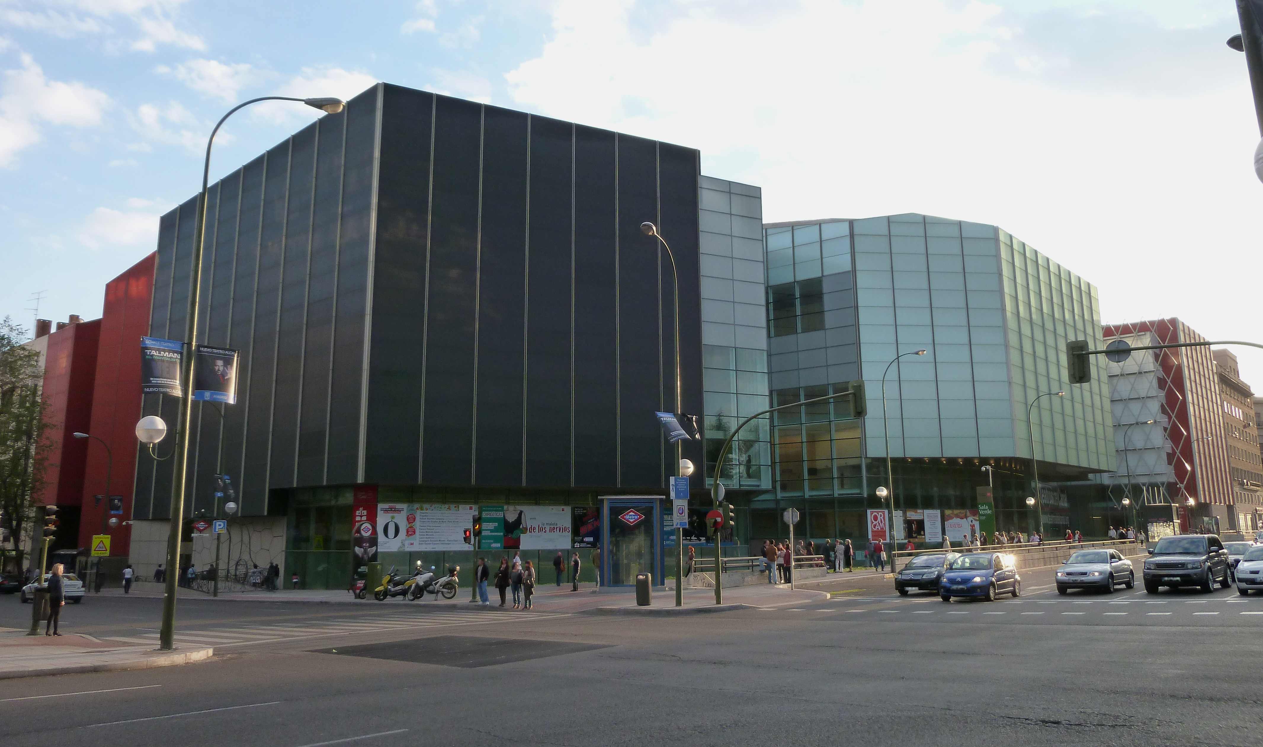 View of Teatros del Canal in Madrid (Spain) from the north-east angle.